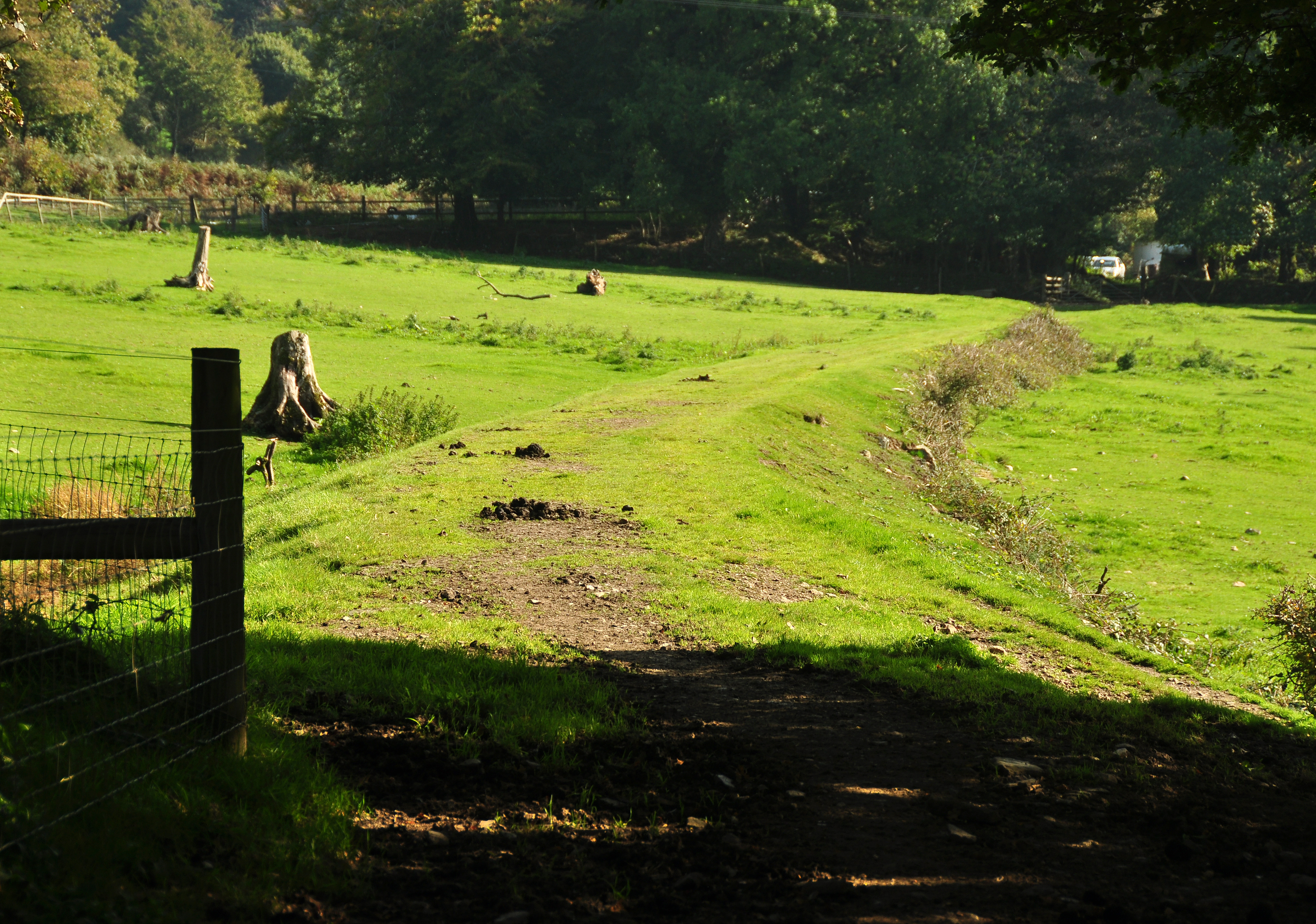 The trackbed of Devon Great Consols Railway near Gulworthy in Devon.